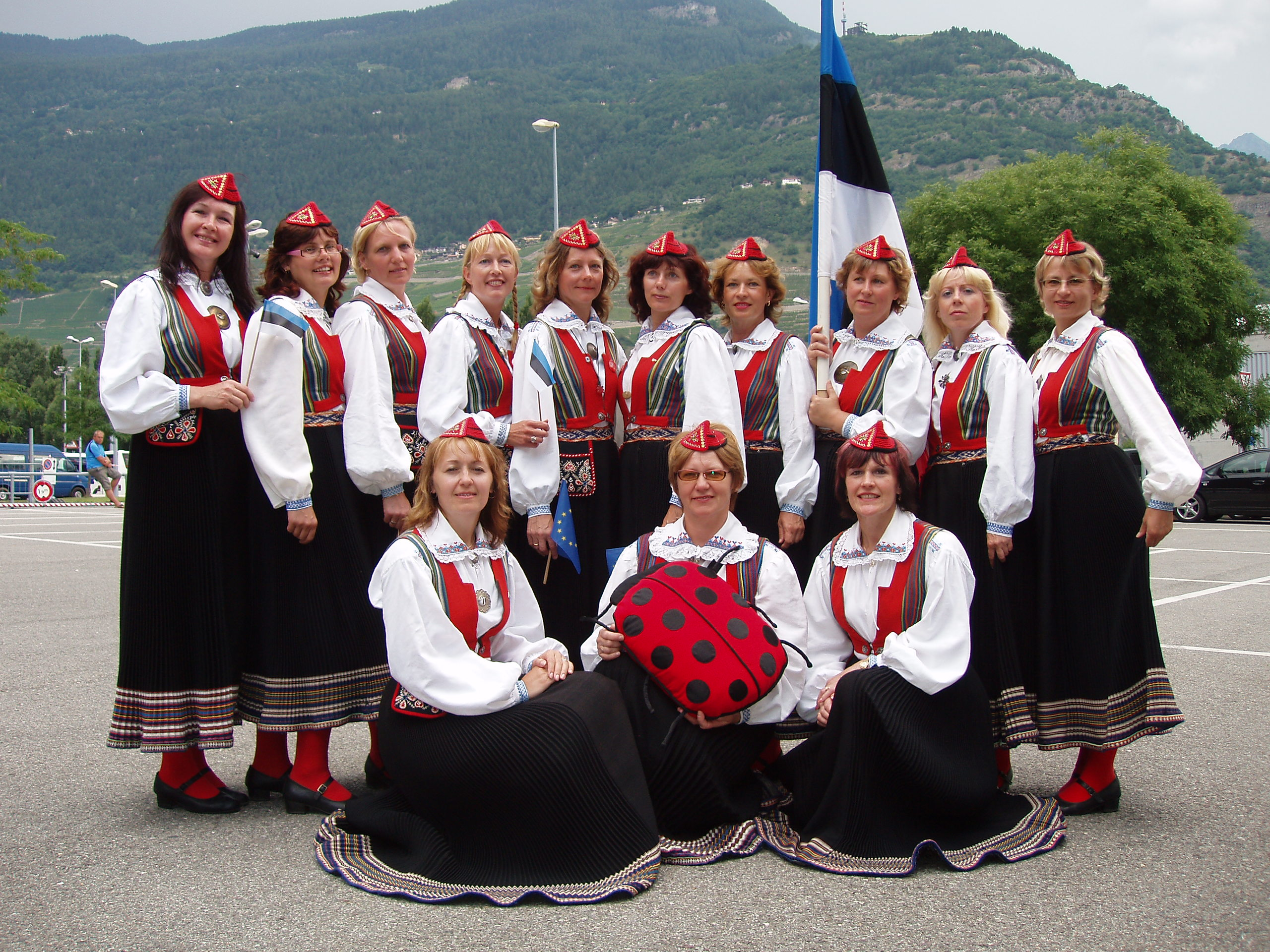 Folk dance group Kirilind from Estonia in Europeade 2008 in Martigny Switzerland. Note: "Kirilind" means the same as "lepatriinu" that is the estonian word for 'ladybug'. See the mascot.